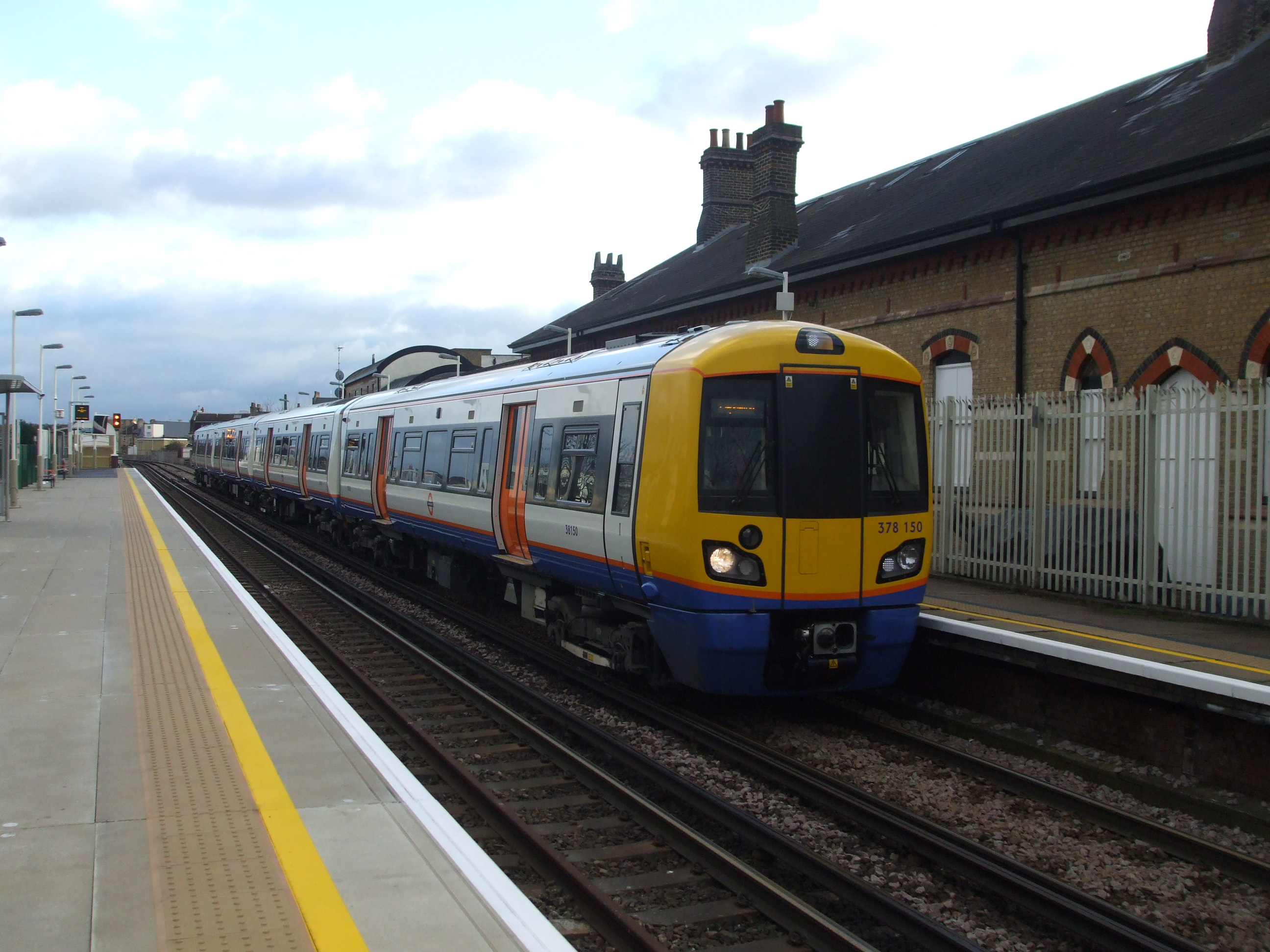 Class 378 unit 378150 calls at Clapham High Street station with a Clapham Junction service on first day of London Overground services in December 2012